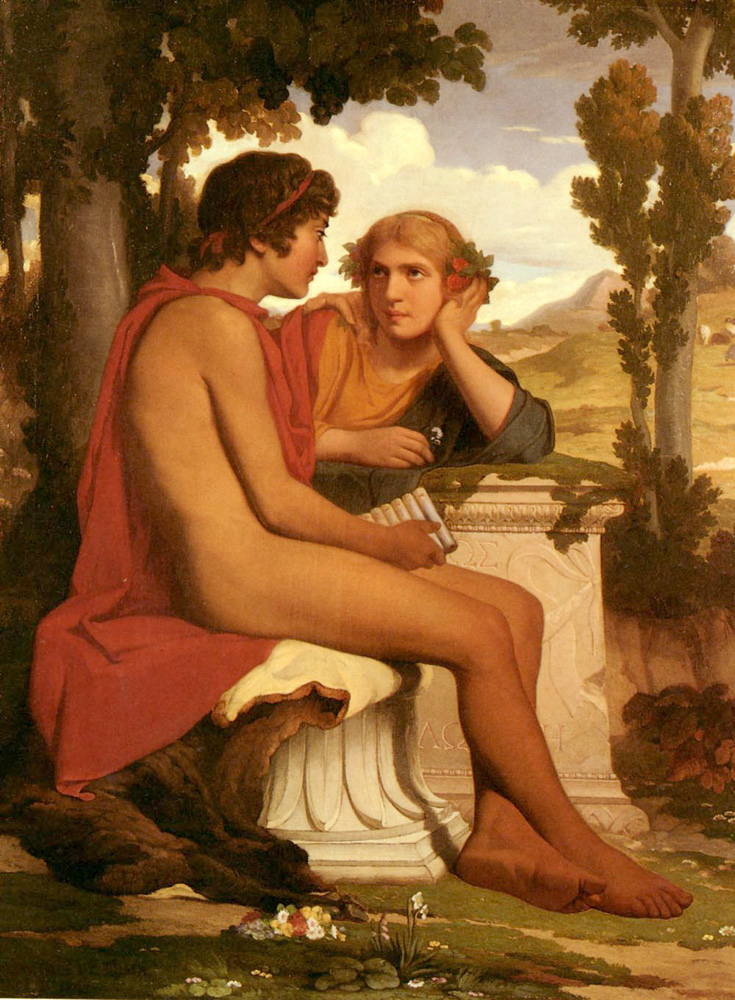 Height: 149.9 cm (59 in); Width: 114.9 cm (45.2 in) dimensions QS:P2048,149.9U174728;P2049,114.9U174728